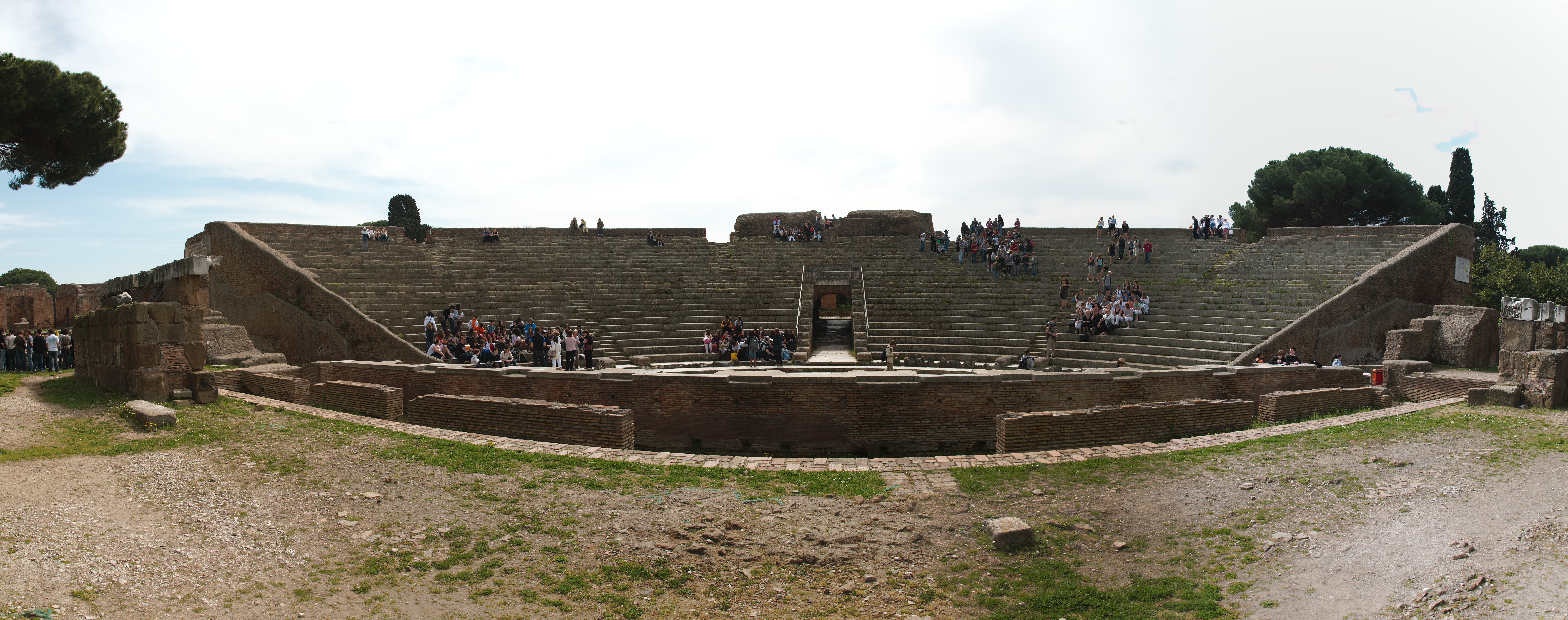 Roman theatre in Ostia Antica